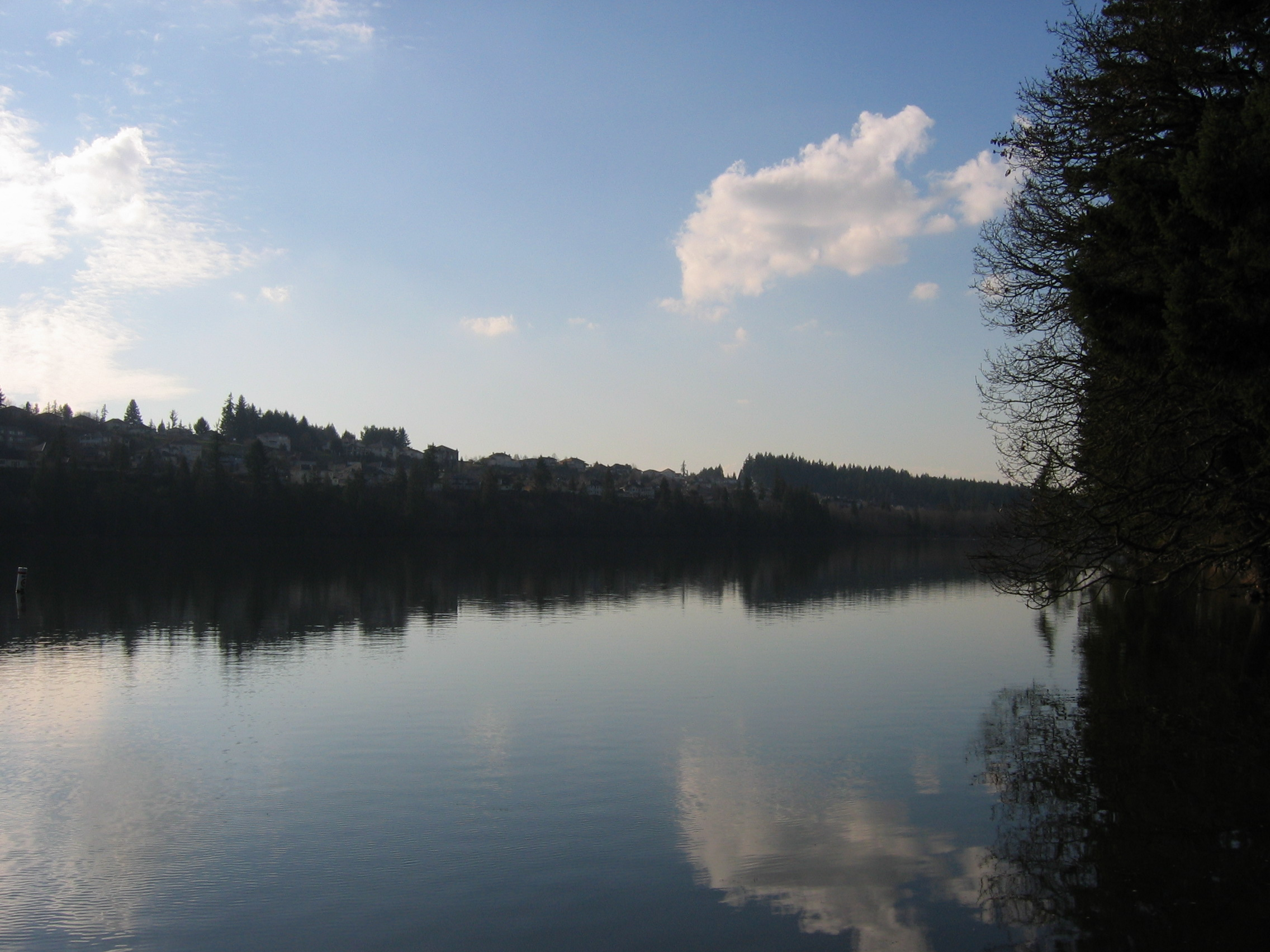 Pictured in the background is the south side of Lacamas Lake. The south side of the lake is where the highest concentration of expensive homes will be found. The picture was taken from the northern boat launch while facing south.